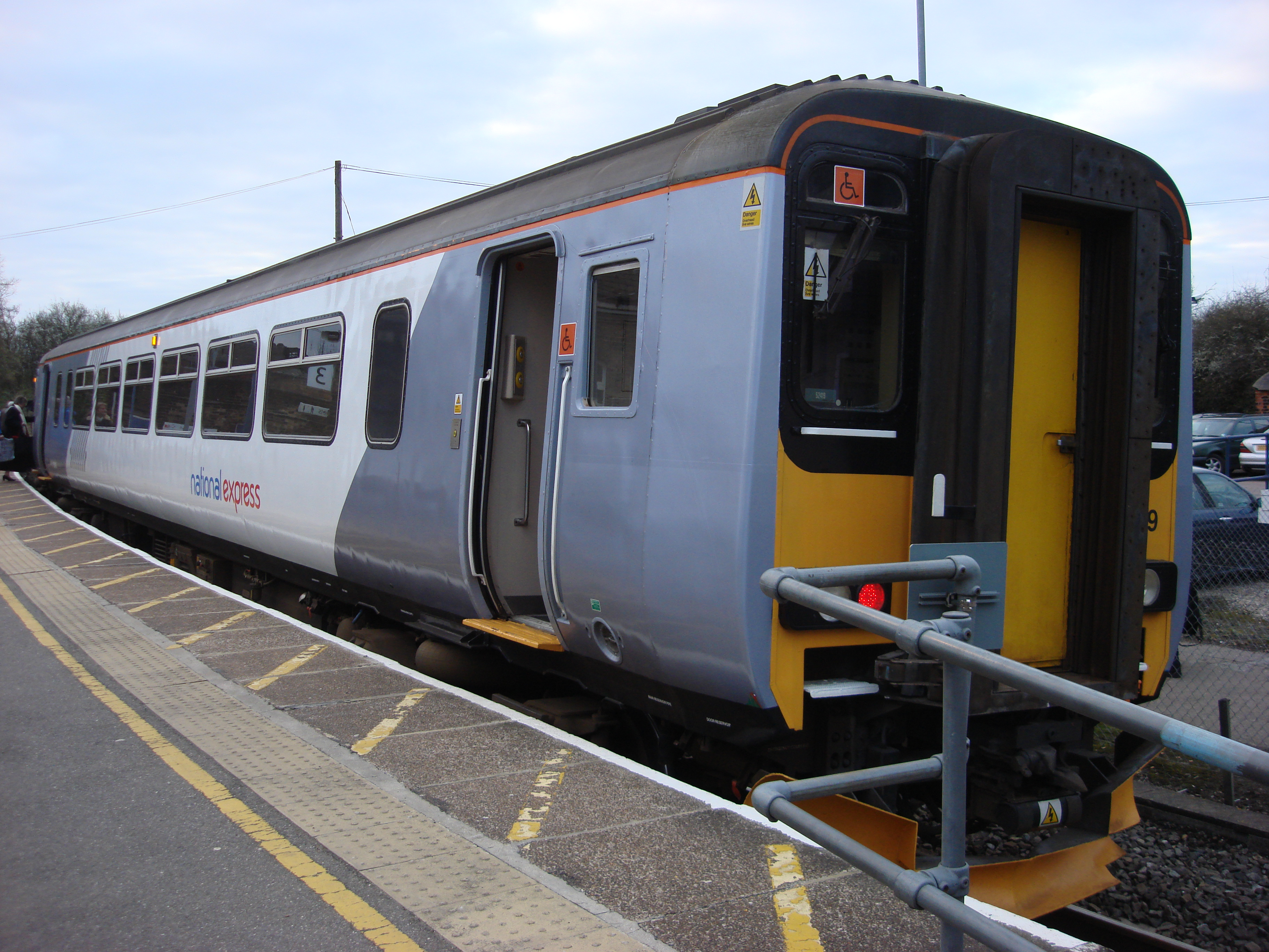 156419 at Marks Tey